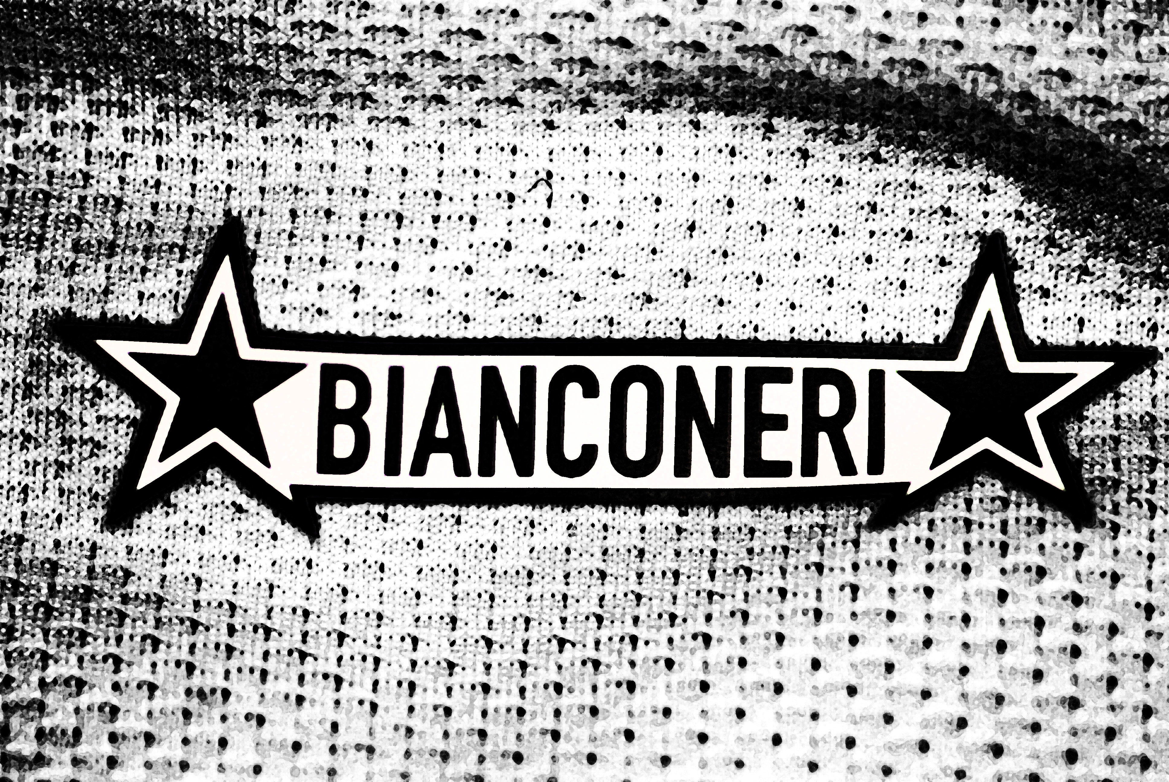 View On Black